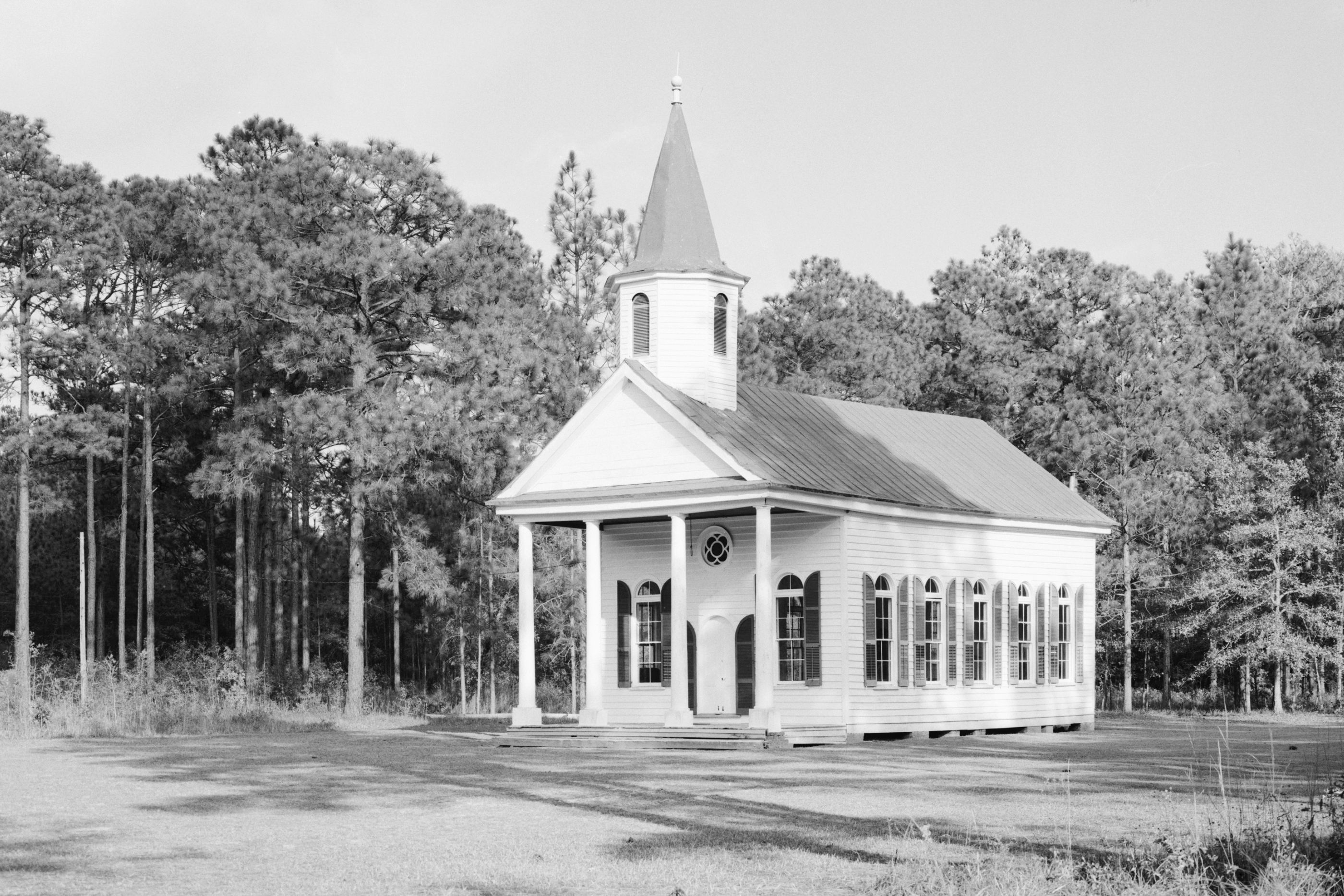 Stoney Creek Presbyterian Church, 1 block North of SC Route 17, McPhersonville (Hampton County, South Carolina)